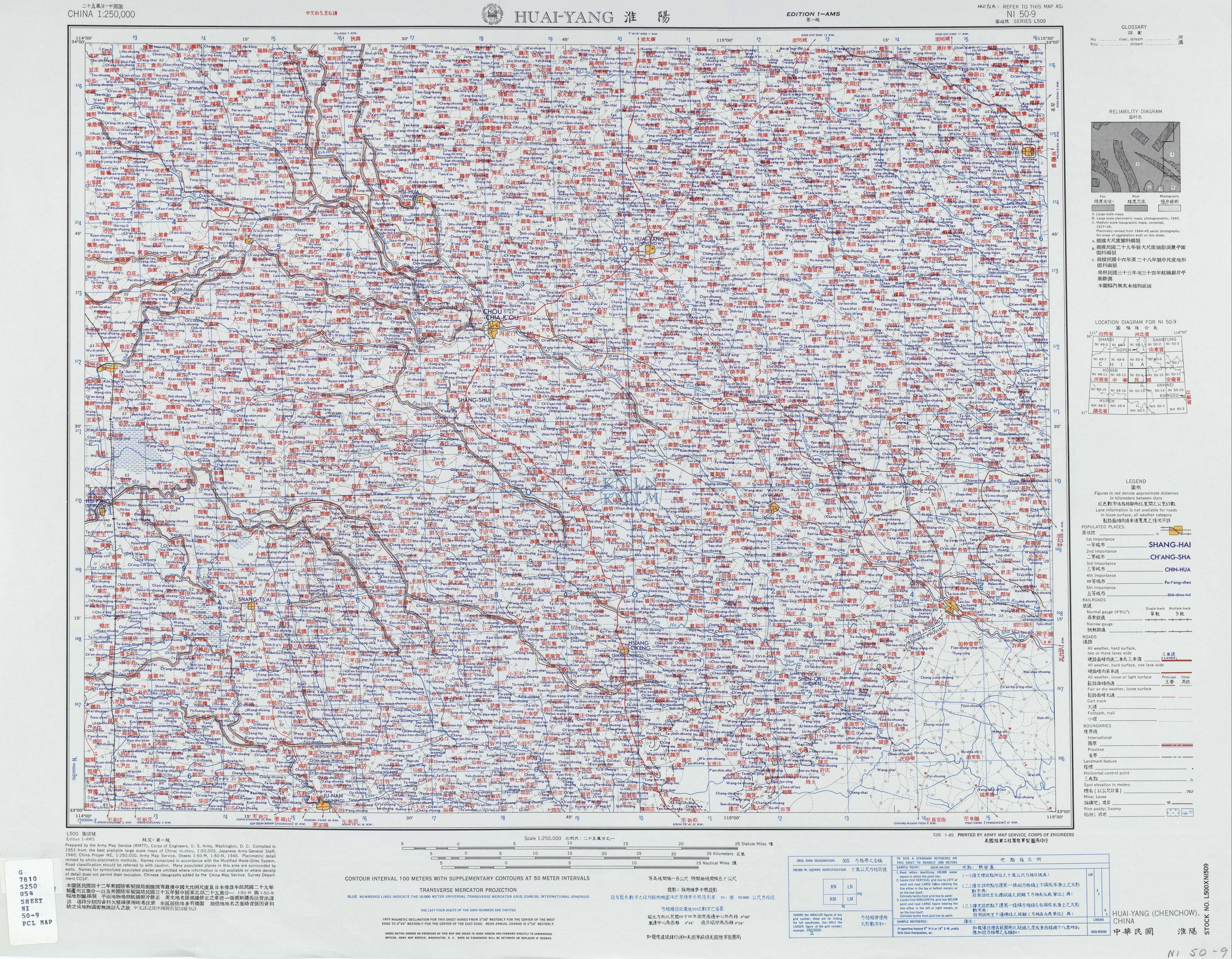 China AMS Topographic Maps